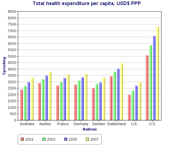 This image depicts the total health care services expenditure per capita, in U.S. dollars PPP-adjusted, for the nations of Australia, Austria, France, Germany, Sweden, Switzerland, the United Kingdom, and the United States with the years 2001, 2003, 2005, and 2007 compared. An 'OECD Health Data 2010' report is used for the information, which is available here. Note that there are related additional information in this list.